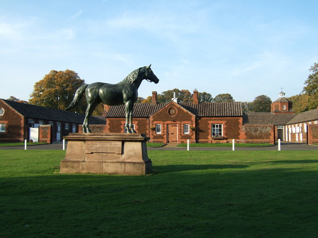 Statue of race horse "Persimmon" at Sandringham A bronze statue of the race horse Persimmon outside the royal stables at Sandringham. Owned by The Prince Of Wales he won the Epsom Derby in 1896 and several other classic races.